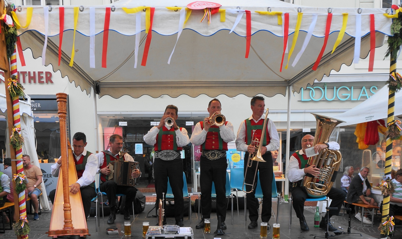 The "Innbrüggler" is a Folk music group from Tyrol at the festival Villacher Kirchtag, Carinthia, Austria, European Union